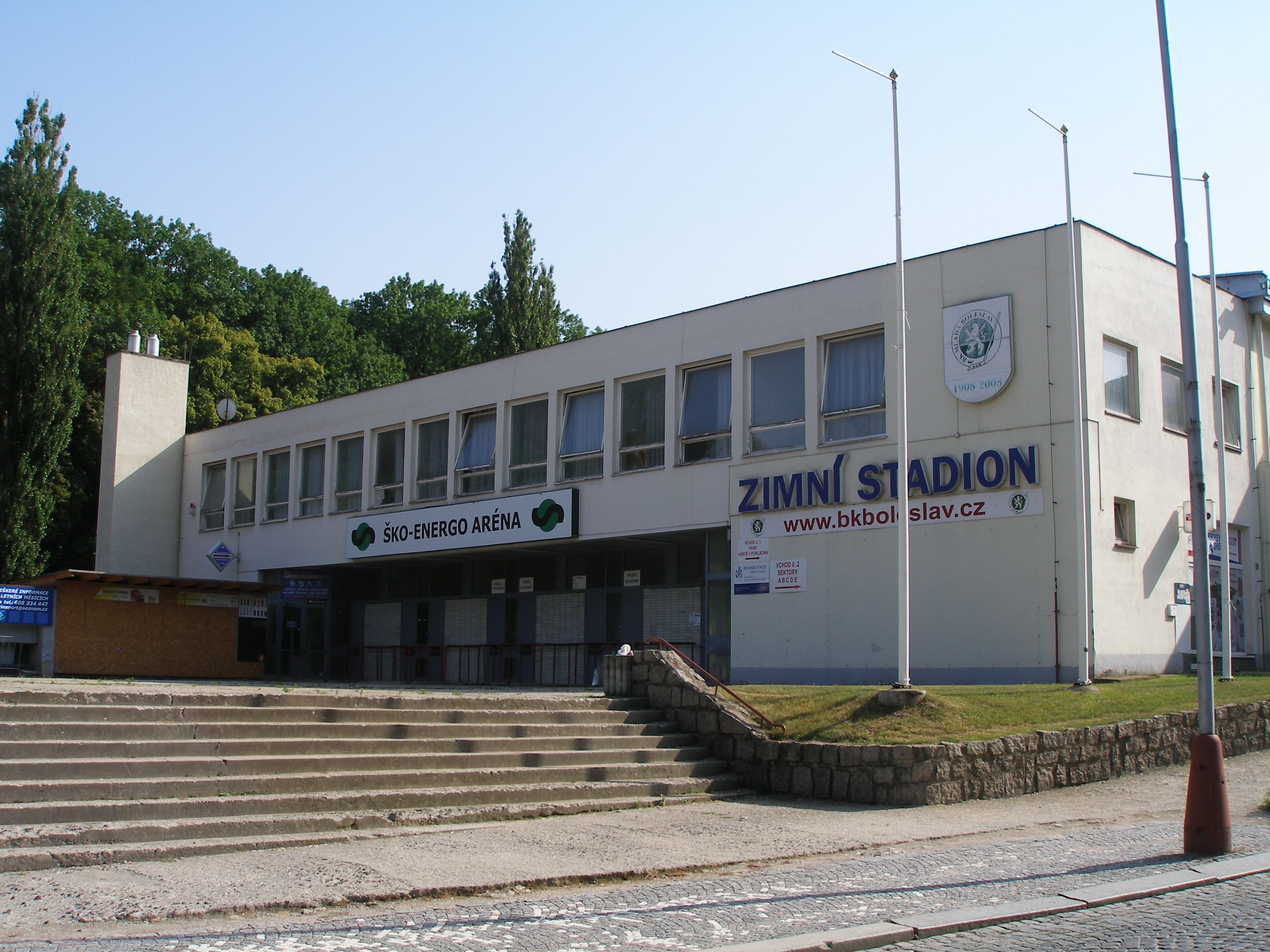 Ice hockey venues in Mladá Boleslav (Czech Republic).